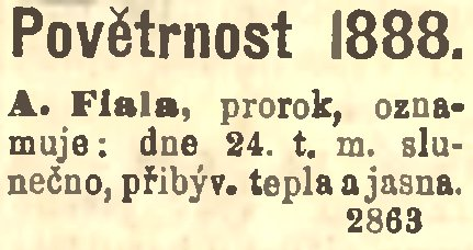 Classified ad - weather forecast for Prague by an excentric amateur meteorologist.